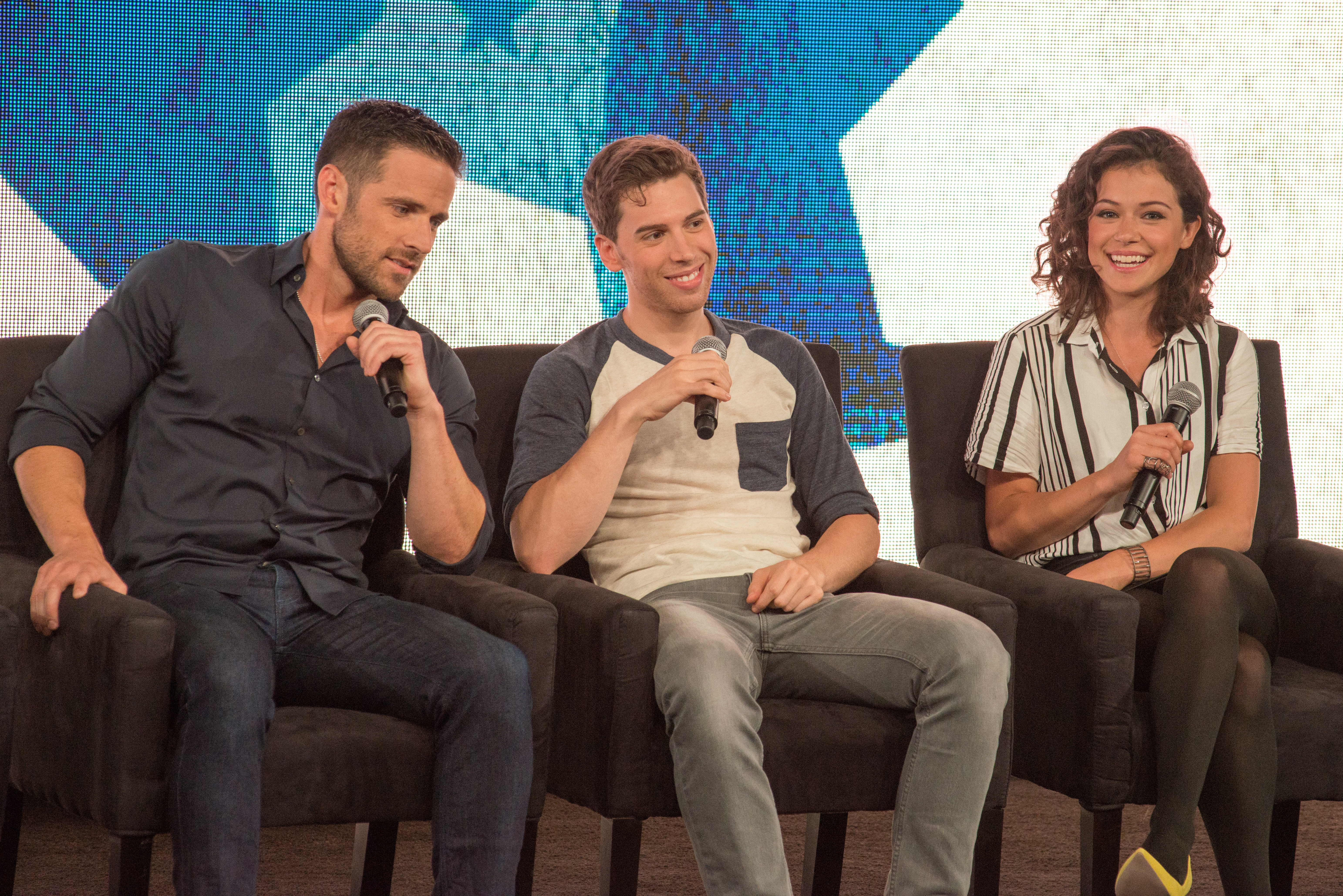 Dylan Bruce, Jordan Gavaris, and Tatiana Maslany in 2014